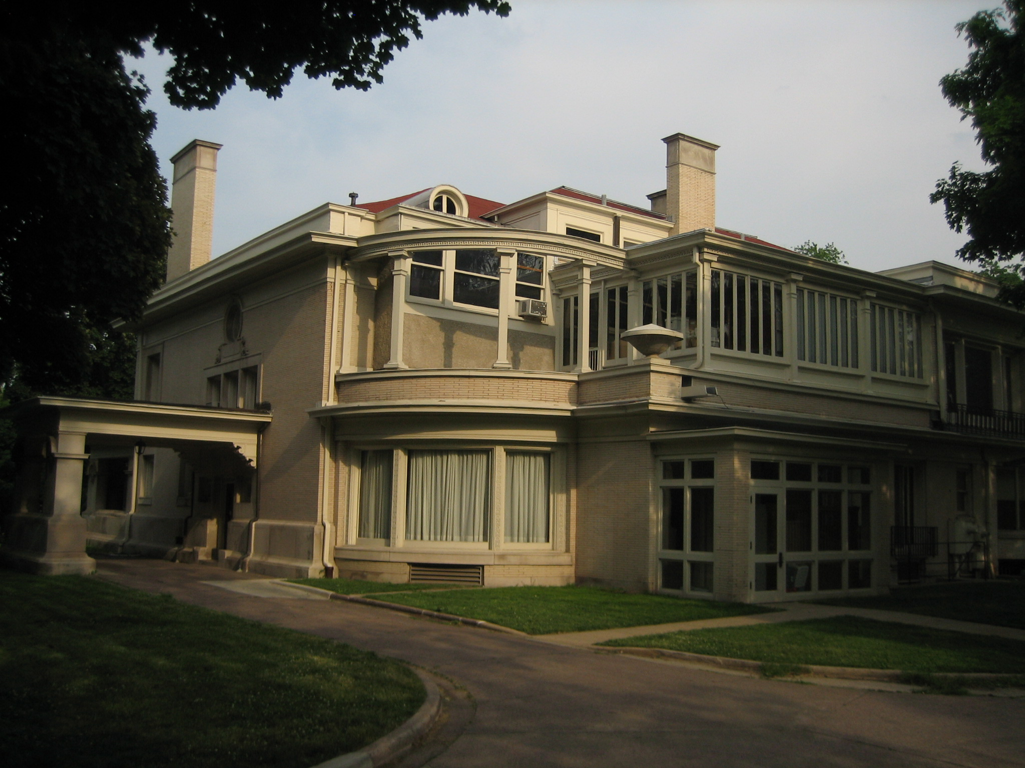 Pleasant Home, also known as the John Farson House, designed by George W. Maher 1897. Oak Park, Illinois, contributing property to the Oak Park-Ridgeland Historic District, as well as being a designated National Historic Landmark.